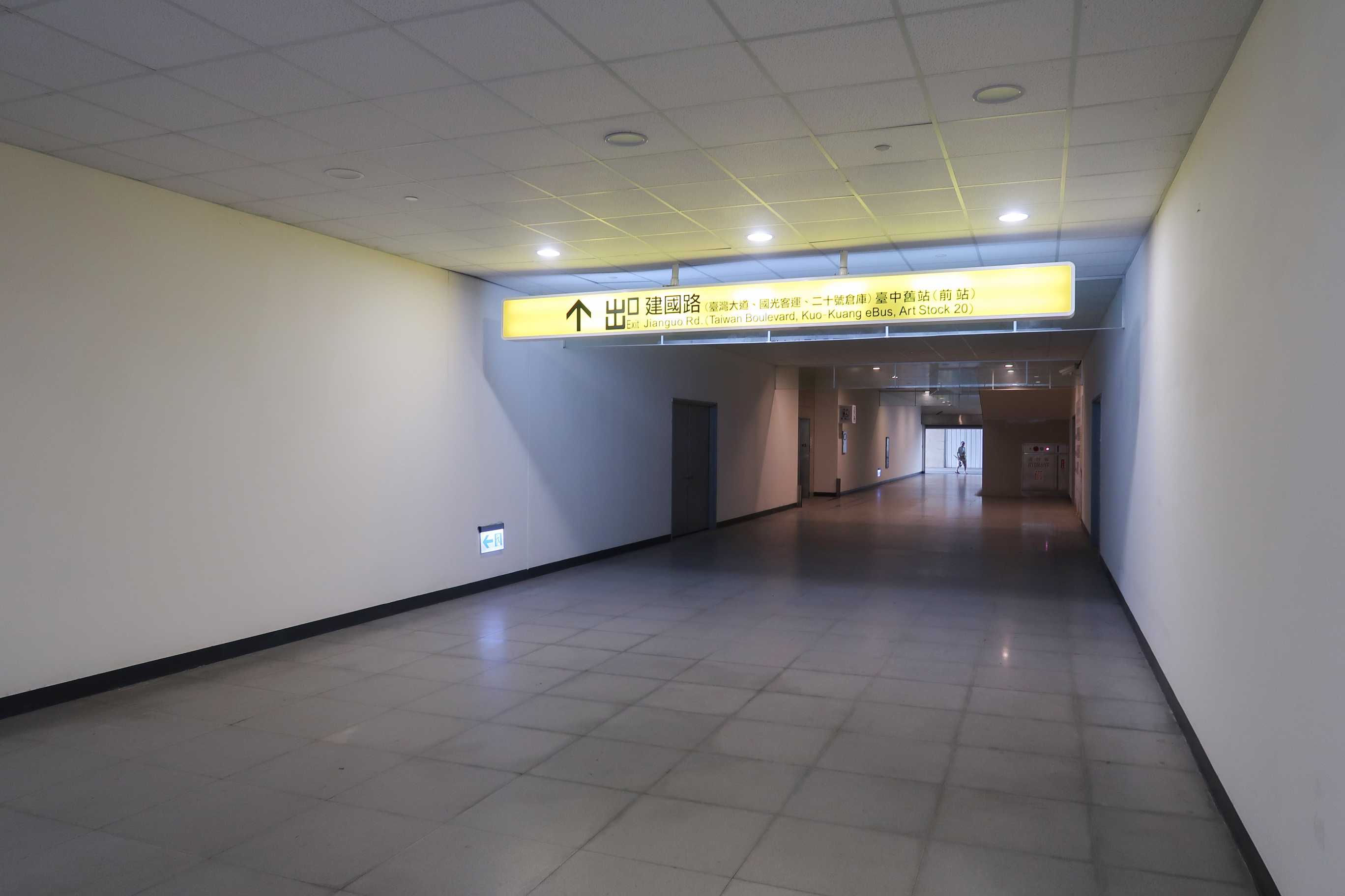 Taichung Station Level 1 24 hours access